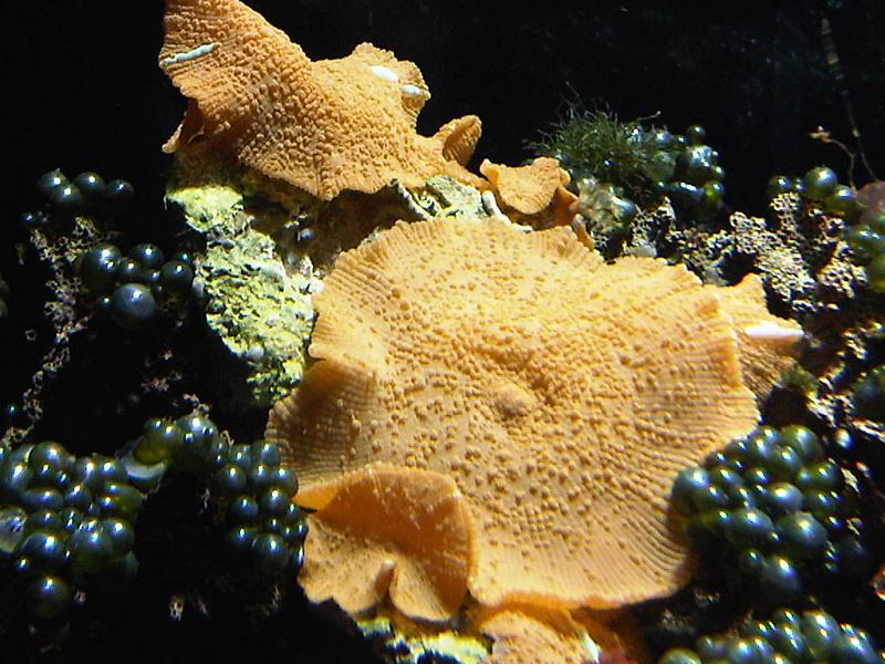 Discosoma nummiforme at the Kew Gardens in Marine Display, England.